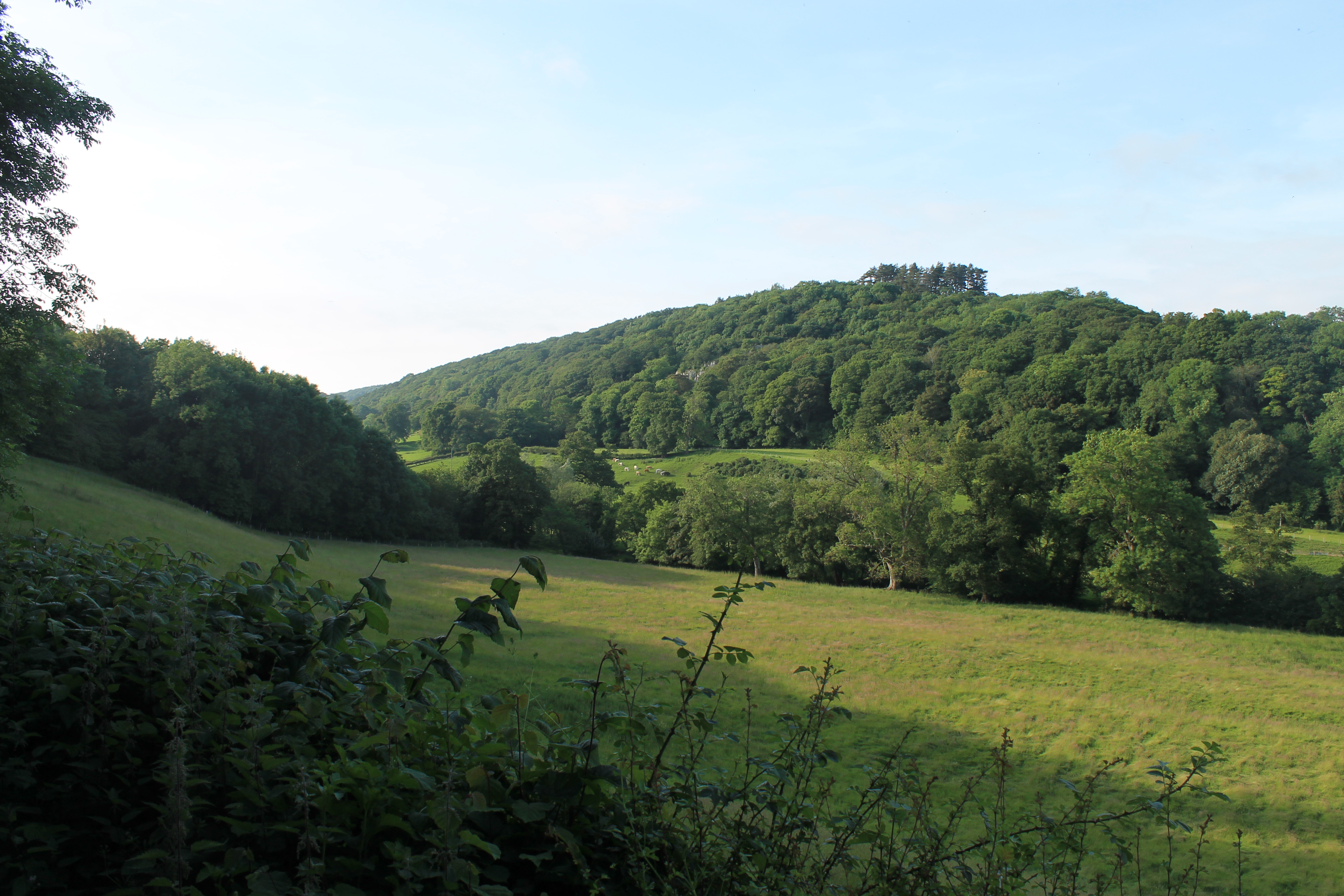 The Elwy Valley. Bontnewydd Cave is near the rocks in the center of the image. The Bontnewydd Palaeolithic site is an archaeological site in Wales which has yielded the earliest known remains of Neanderthals in the region. It is located on the River Elwy, near the hamlet of Bont-newydd, Conwy. Teeth and part of a jawbone excavated in the cave in 1981 were dated to 230,000 years ago. The bone is from a Neanderthal boy approximately eleven years old.